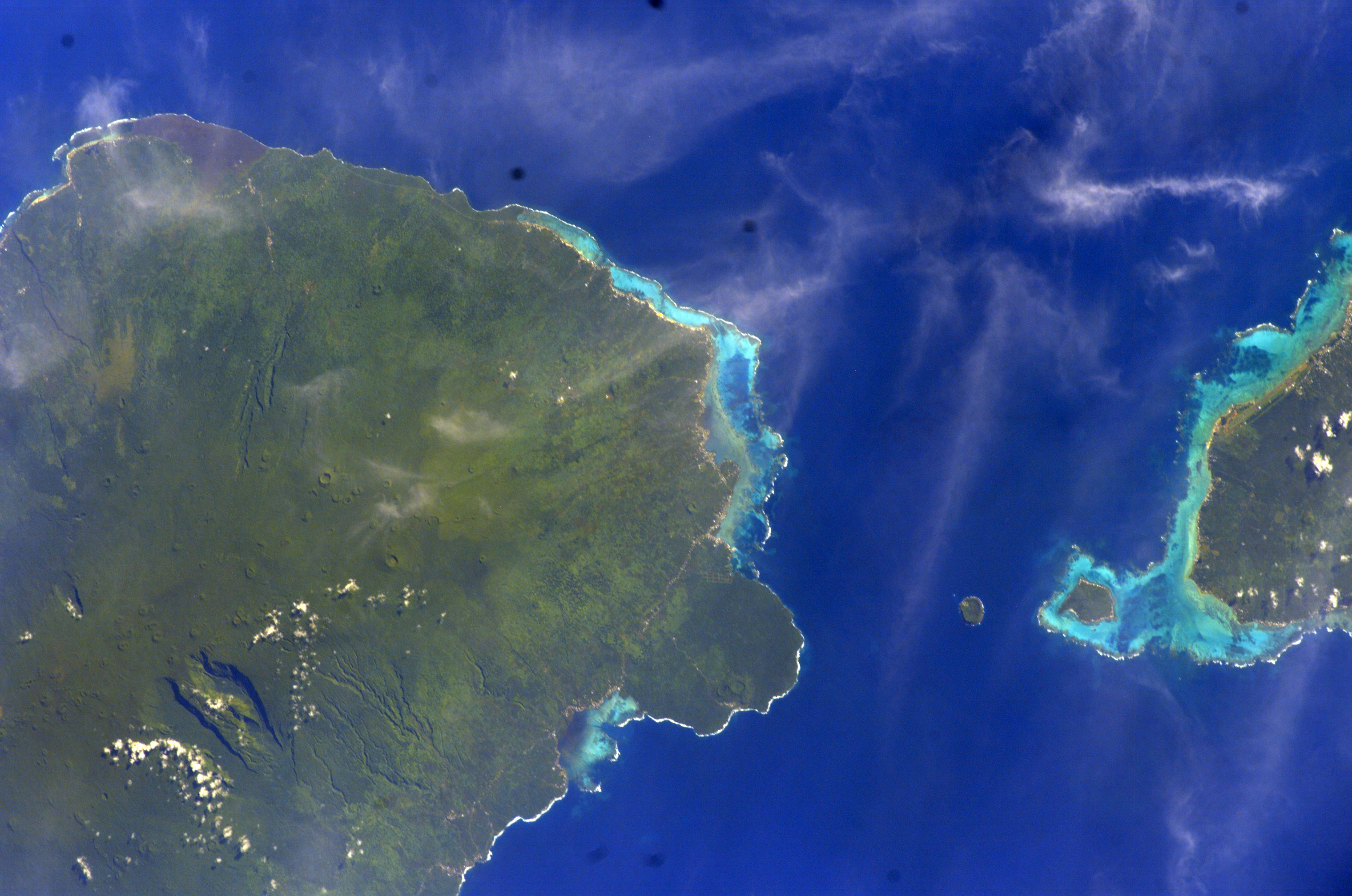 East side of Savai'i Island, Apolima, Manono & west end of Upolu